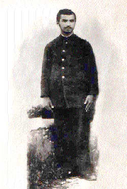 Hristo Uzunov